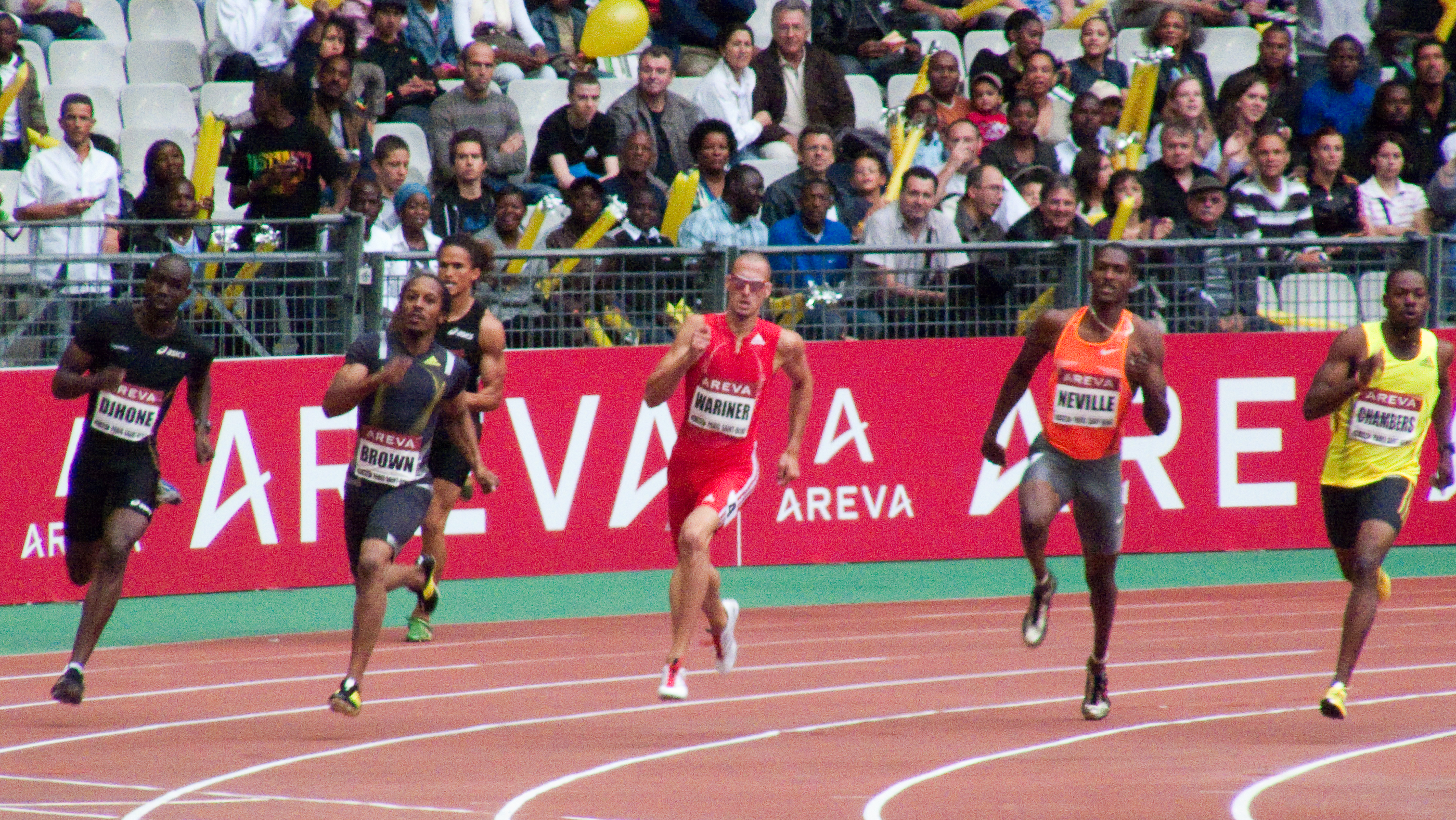 400 m du Meeting Areva 2009 à Saint-Denis. De gauche à droite : Leslie Djhone (FRA), Christopher Brown (BAH), Jeremy Wariner (USA), David Neville (USA) et Ricardo Chambers (JAM).